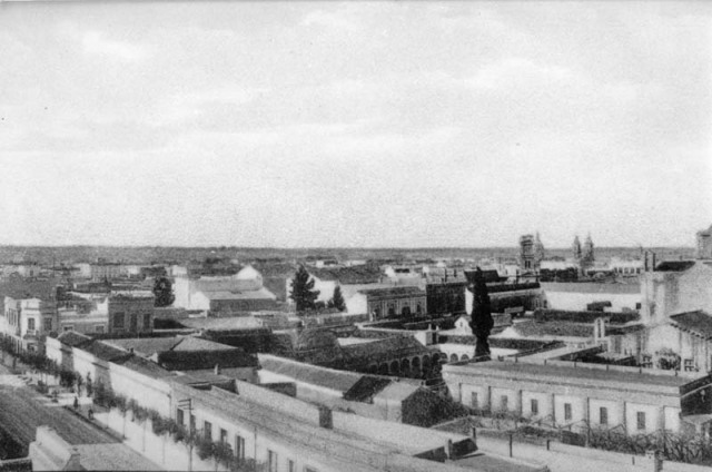 General Paz avenue. Cordoba, Argentina.